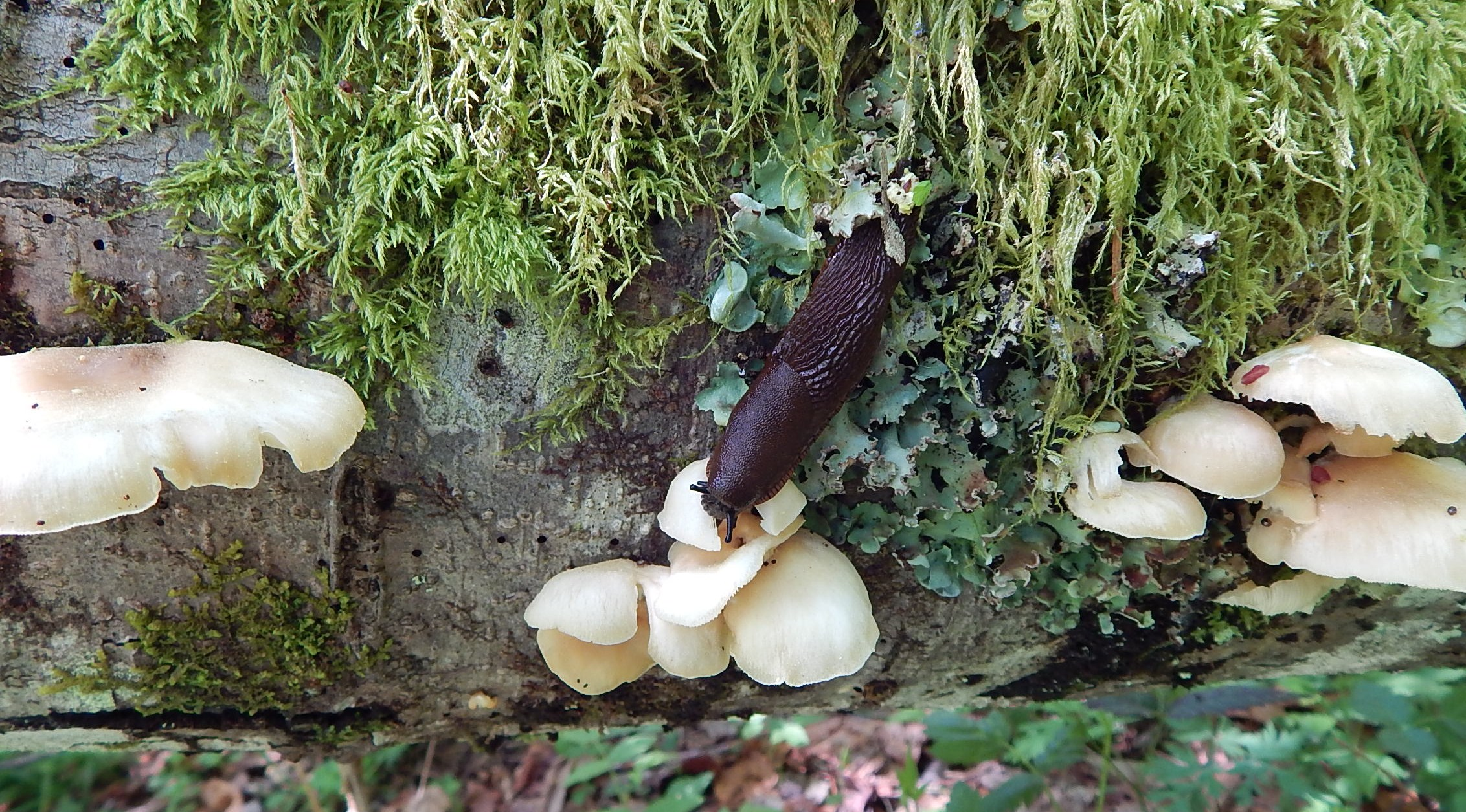 Black slug, Arion ater, munching fungi in Snoqualmie valley. Washington state